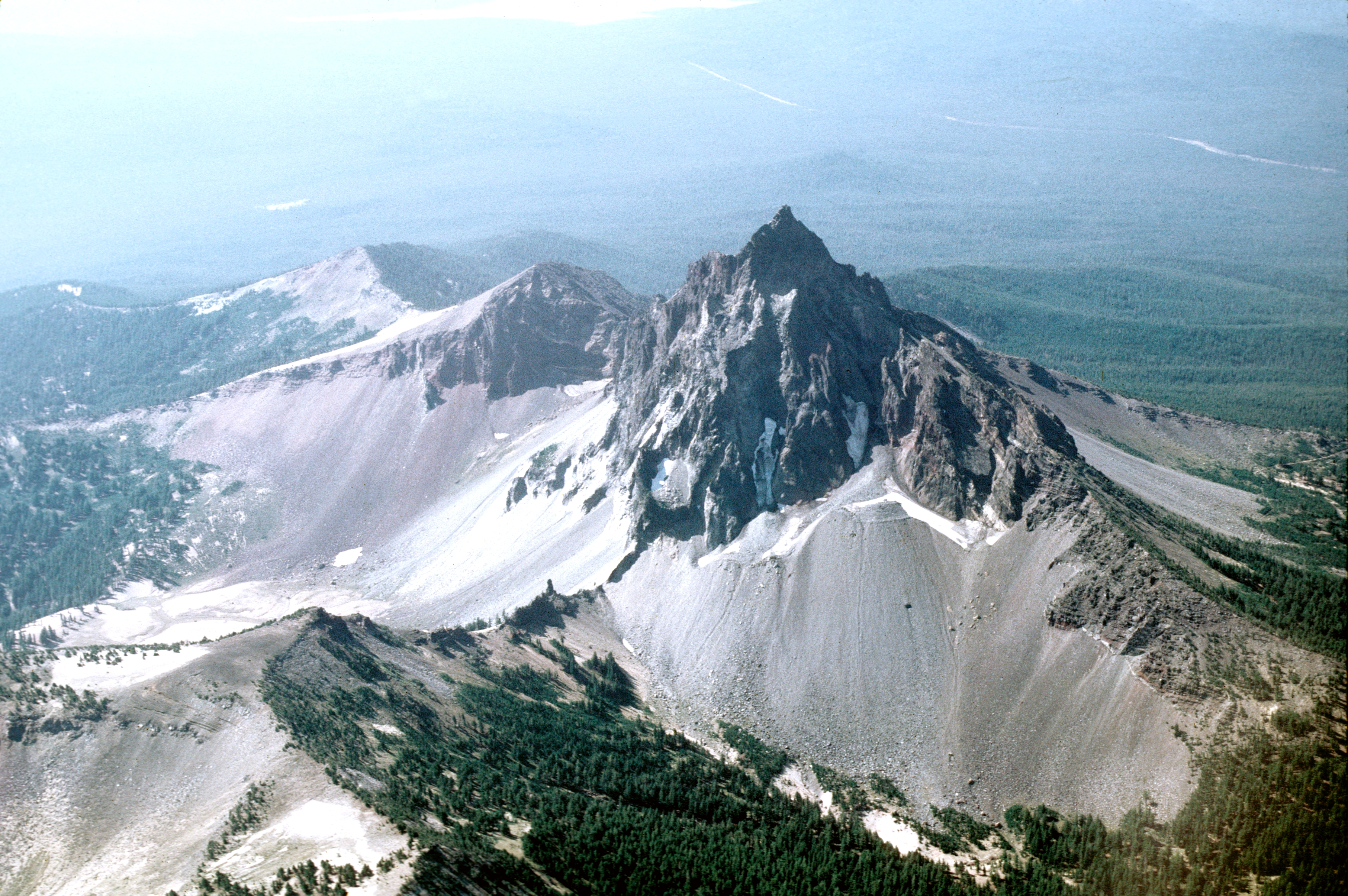 Aerial photograph of Mount Thielsen, a volcano in Oregon, United States